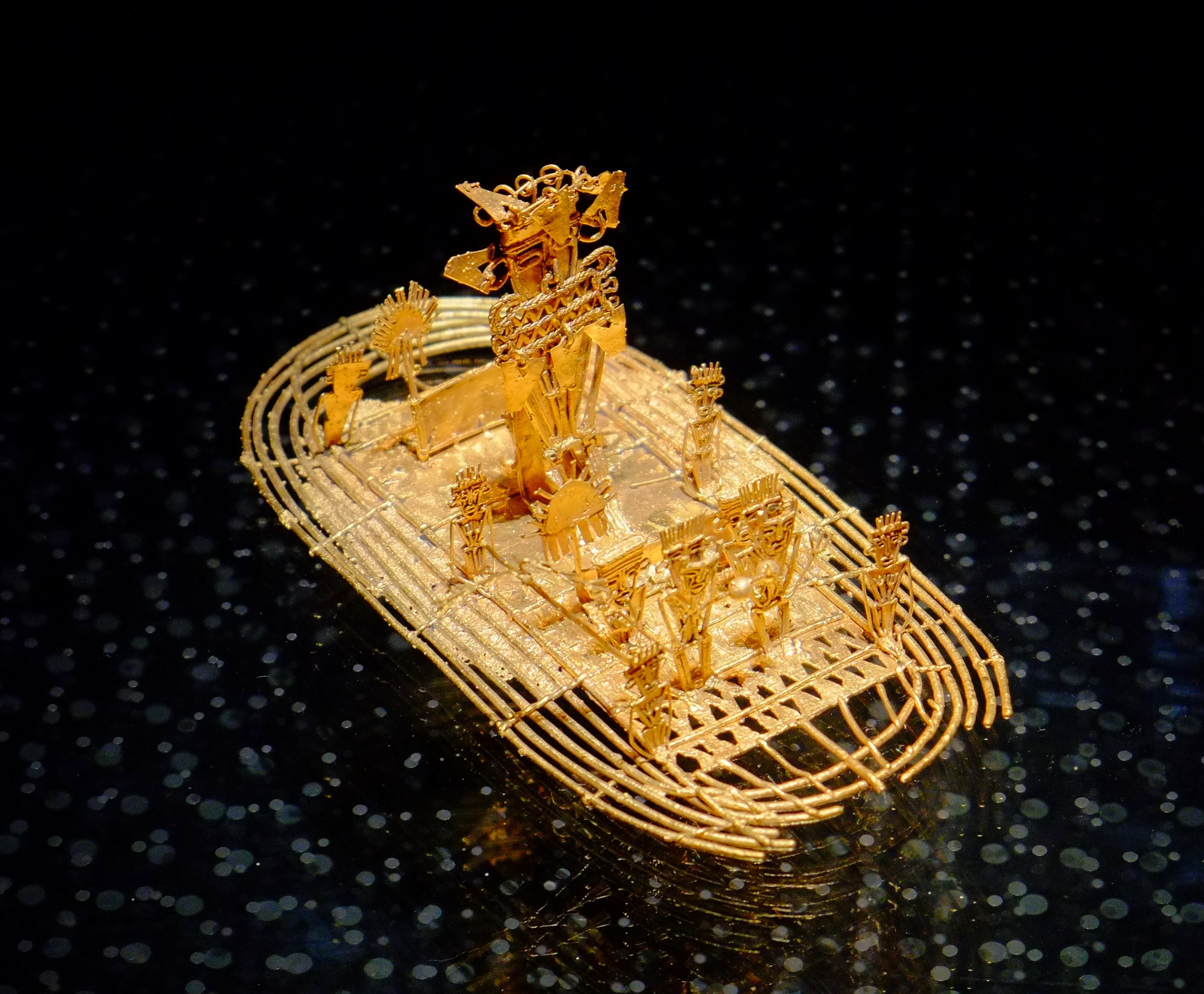 Muisca Raft, Gold Museum of Bogotá, Colombia